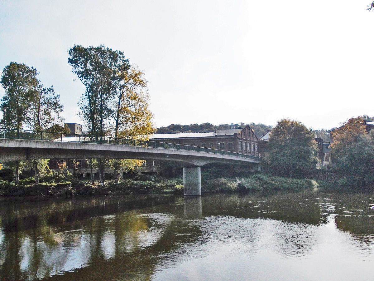 Bridge over the Mulde in Golzern (Grimma, Leipzig district, Saxony)